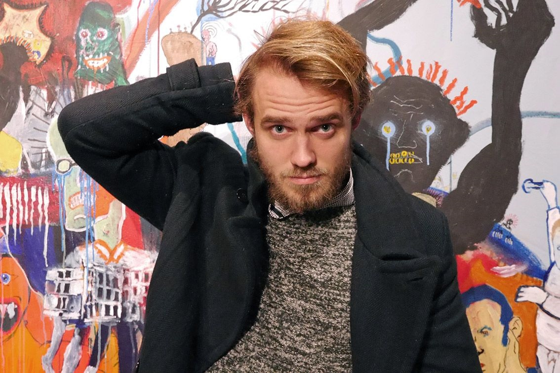 Úlfur Karlsson, 2015